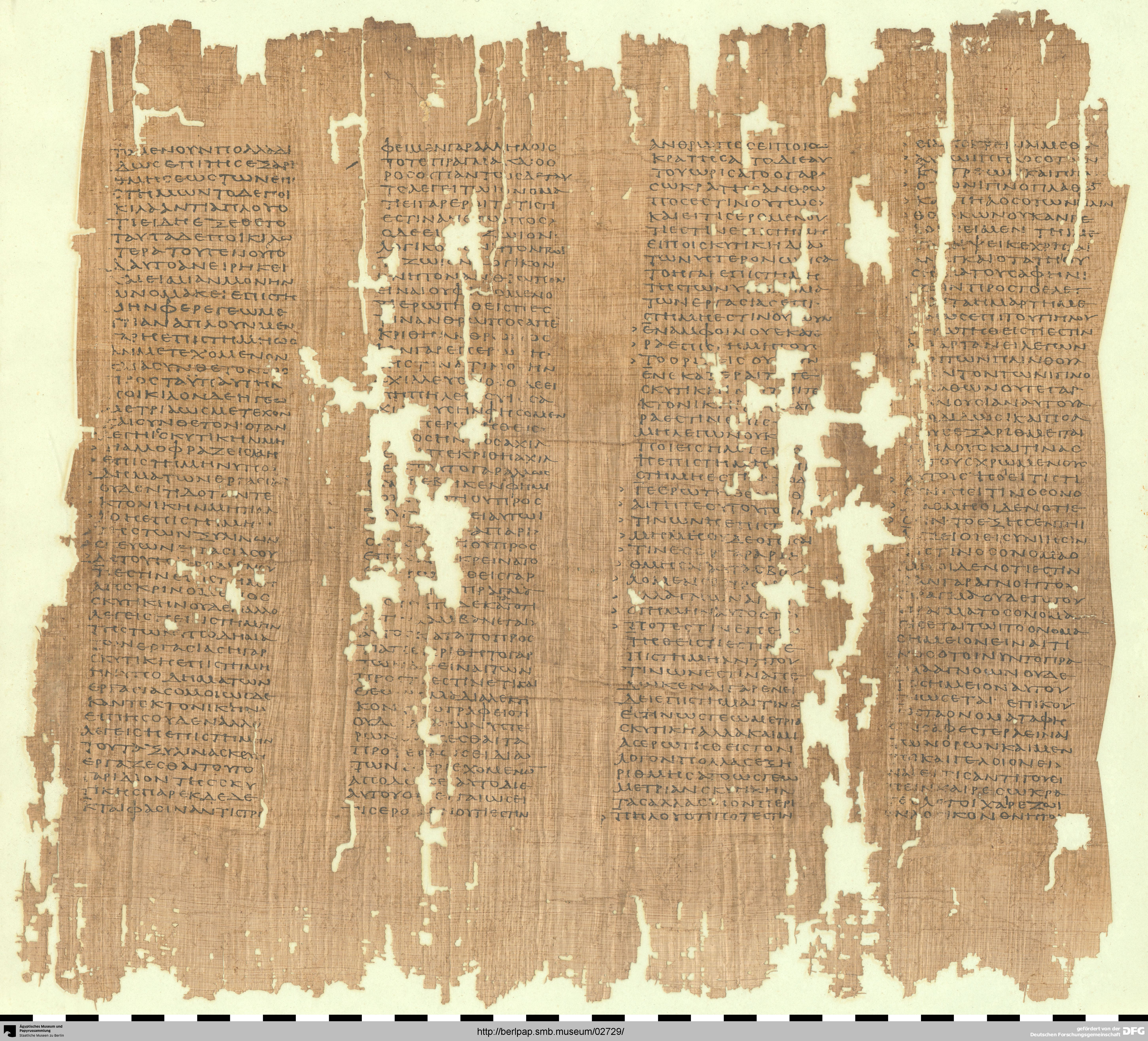 A fragment of an anonymous ancient commentary to Plato’s dialogue „Theaetetus“ in a papyrus written at Hermopolis, Egypt: Berlin, Staatliche Museen, P. 9782.